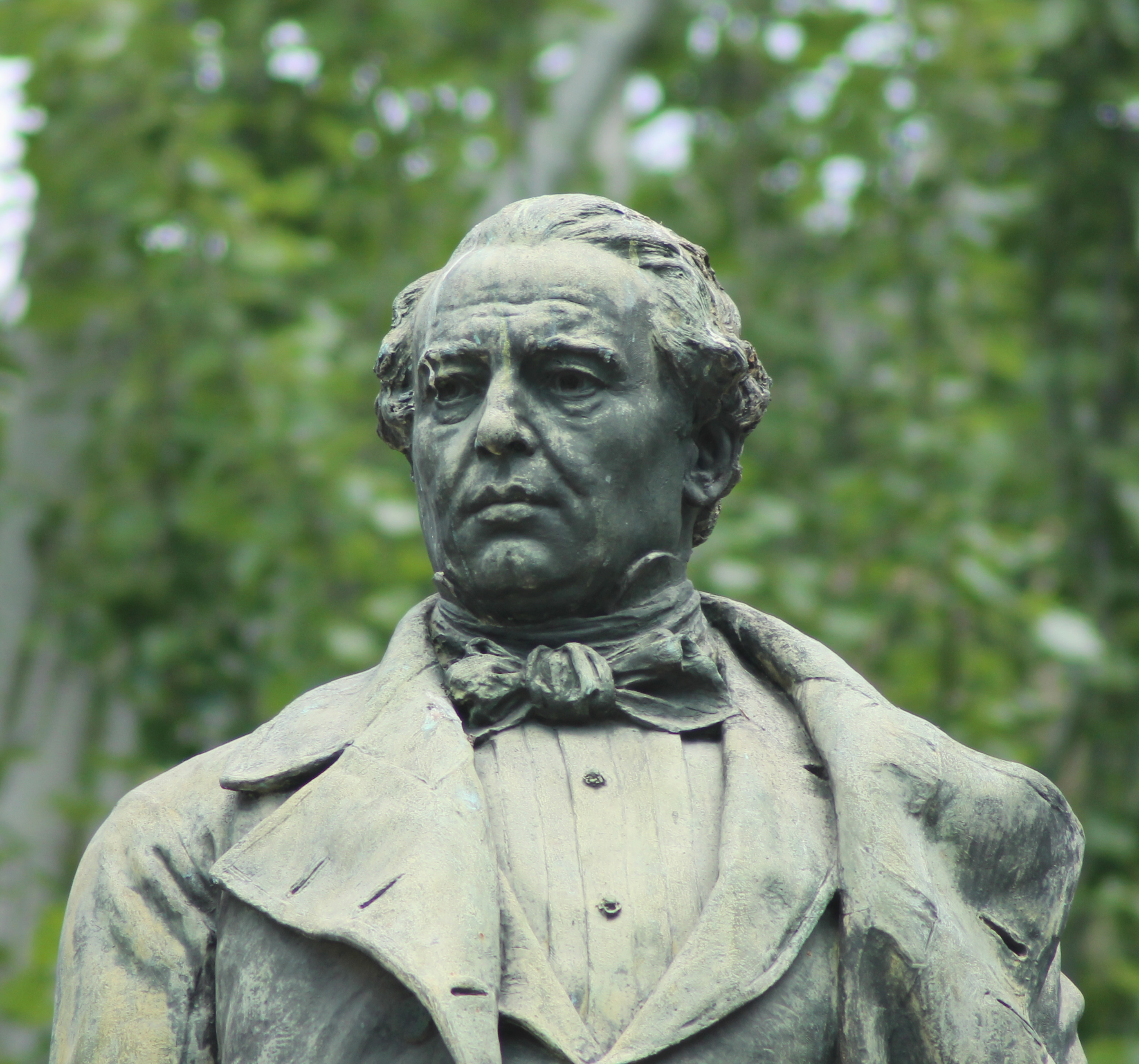 Depicted person: Juan Bravo Murillo.